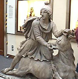 Mithras slaying the bull. Marble, Roman artwork, 2nd century AD. From Rome.